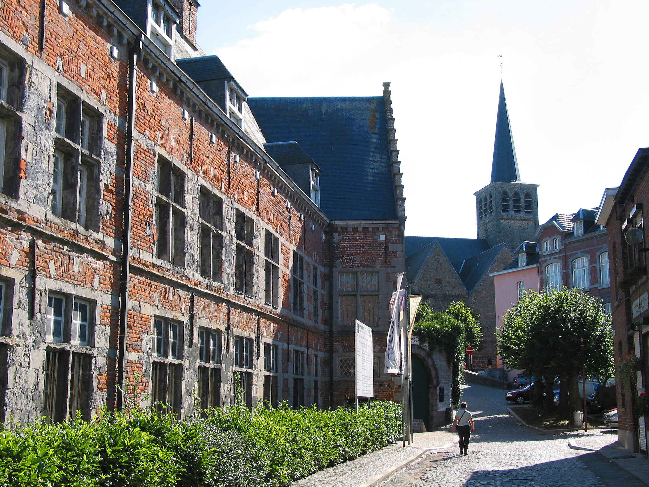 Lessines (Belgium), the Hospital Our Lady With the Rose (founded in 1242).